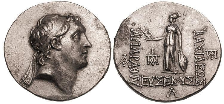 Tetradrachm of Ariarathes V. (ca. 163-130 BC). King of Cappadocia inscription reads; "ΒΑΣΙΛΈΩΣ ΑΡΙΑΡΑΘΟΥ ΕΥΣΕΒΟΎΣ"